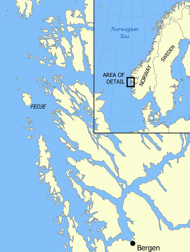 This map shows the location of the island and municipality of Fedje.